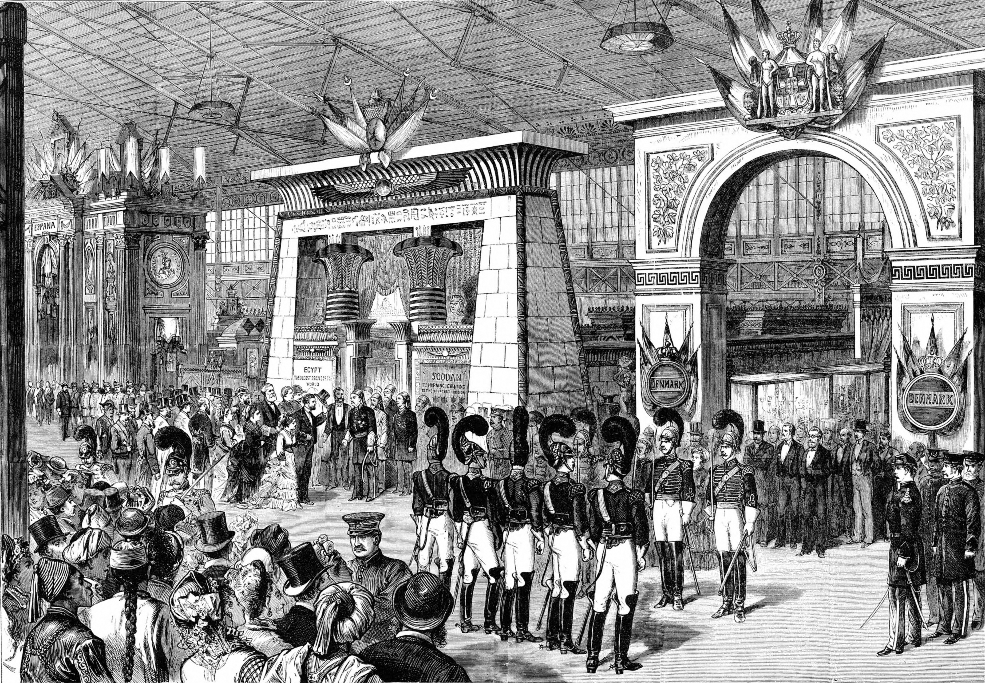 The opening of the 1876 Centennial Exposition in Philadelphia was attended by a number of dignitaries, including President Grant and the emperor of Brazil. Here they are seen passing through the main hall in this illustration from Scientific American June 10, 1876. The illustration had already been used in the May 27 edition of Frank Leslie's Illustrated Newspaper.